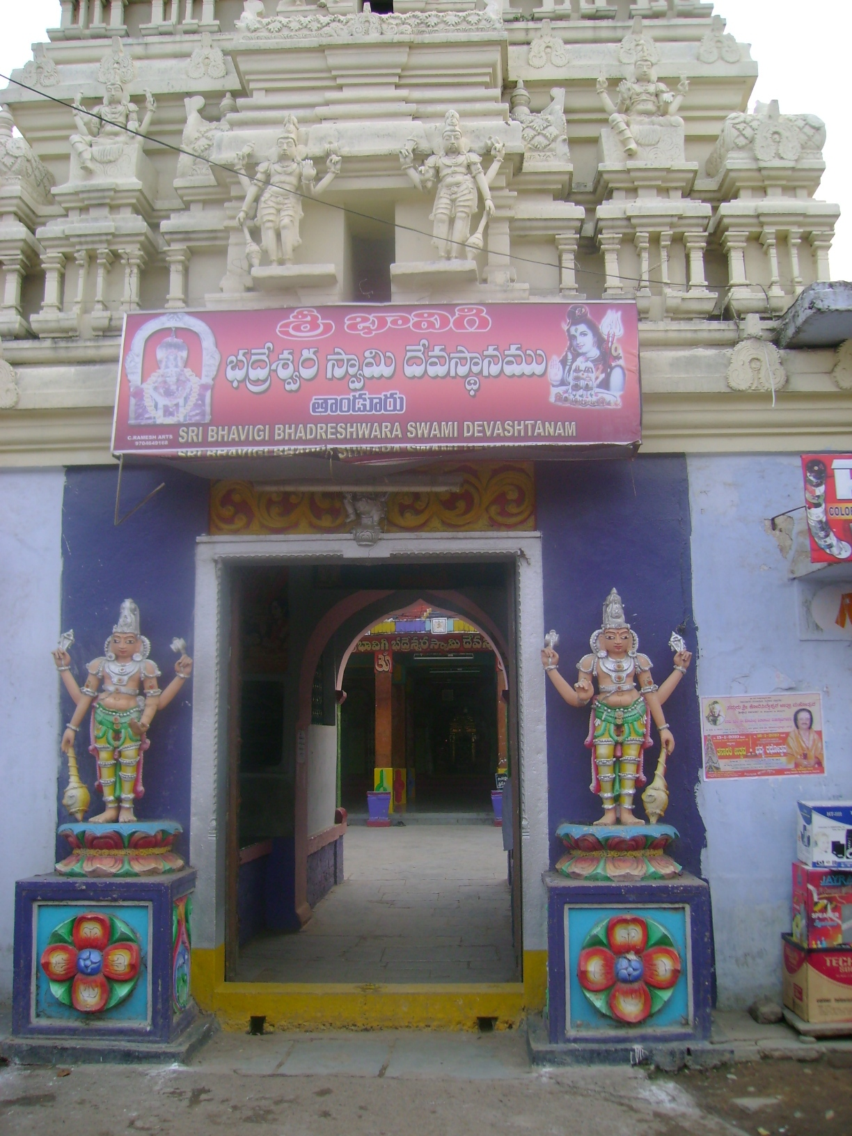 Sri Bhavigi Bhadreshwar Swamy Temple, Tandur, Rangareddy Dist (Andhra Pradesh) India